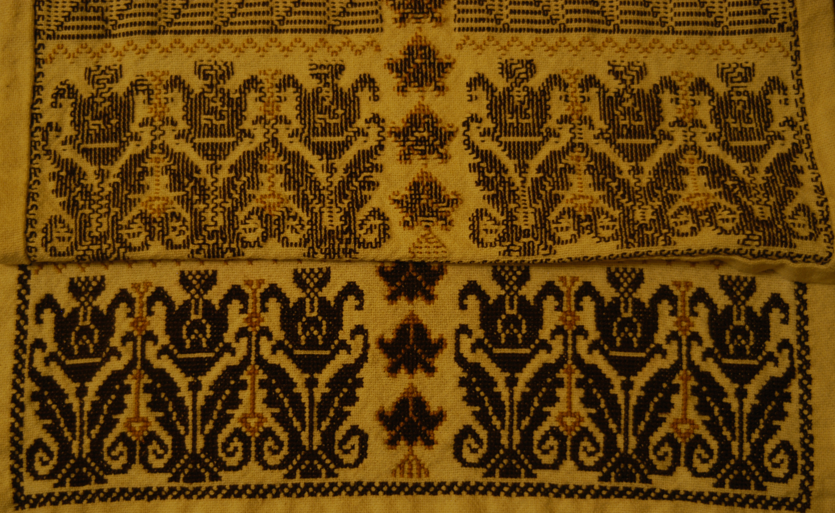 Example of cross stitch work from Palestine. Top half is the work from the reverse side. Bought in Surif 2006.